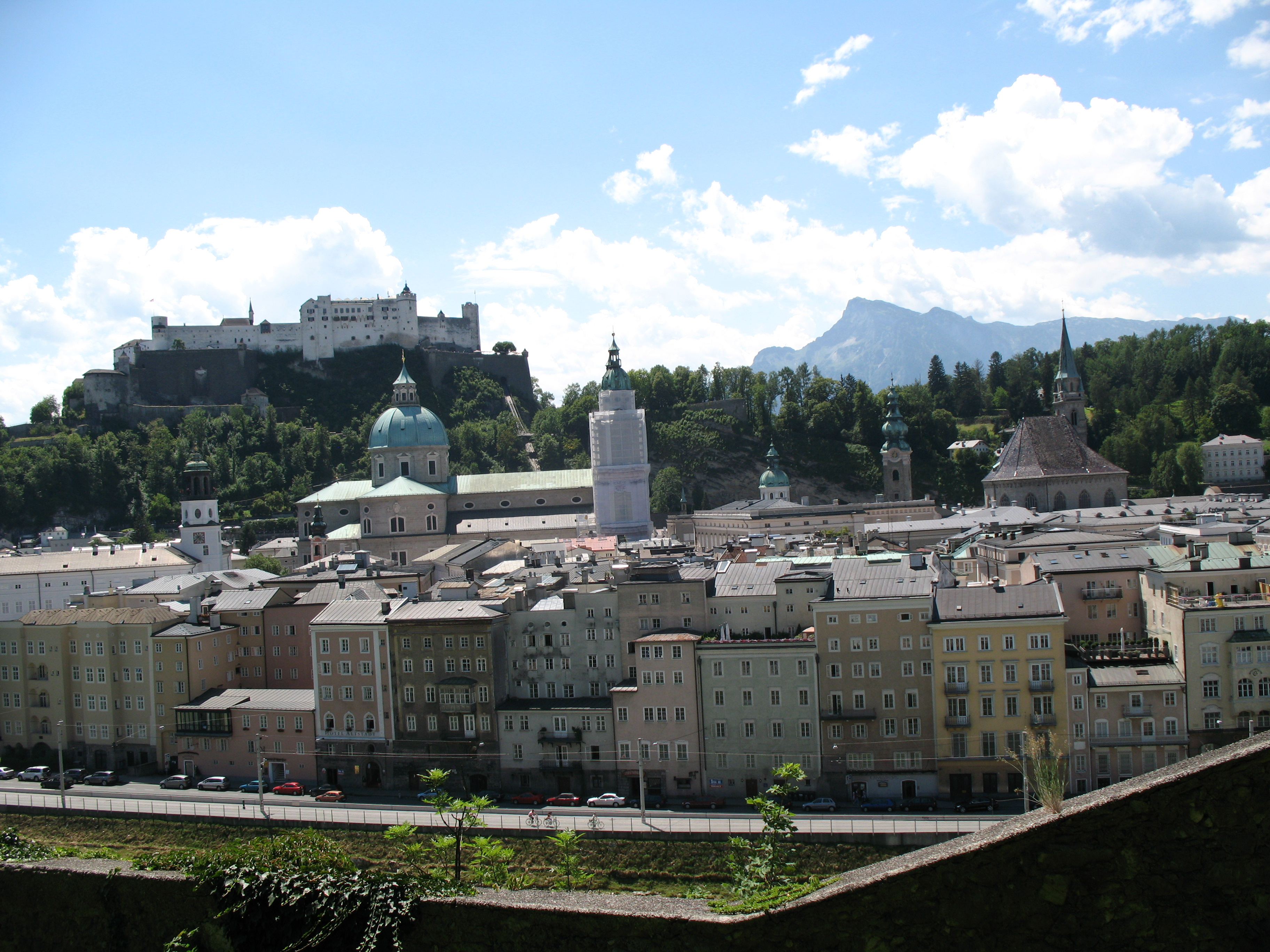 View from Kapuzinerberg, Salzburg, Austria